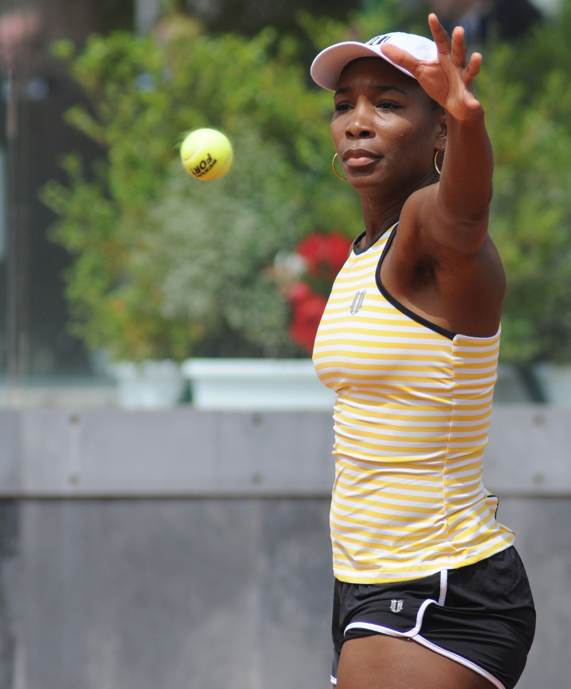 Venus Williams at the 2014 Internazionali BNL d'Italia